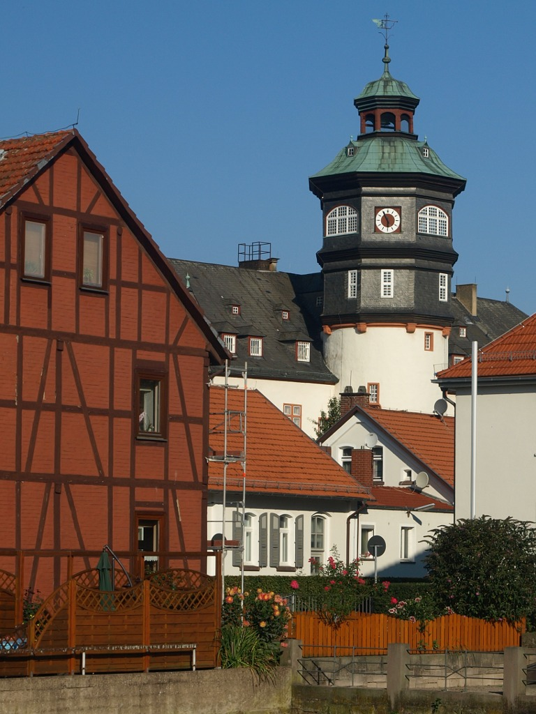 Stair tower of Ziegenhain Castle. Four massif bricked floors probably belongs to the medieval fortified castle. The two half-timbered floors above (covered with shingles) were built around 1650 and belongs to the building phase of unfortified residence